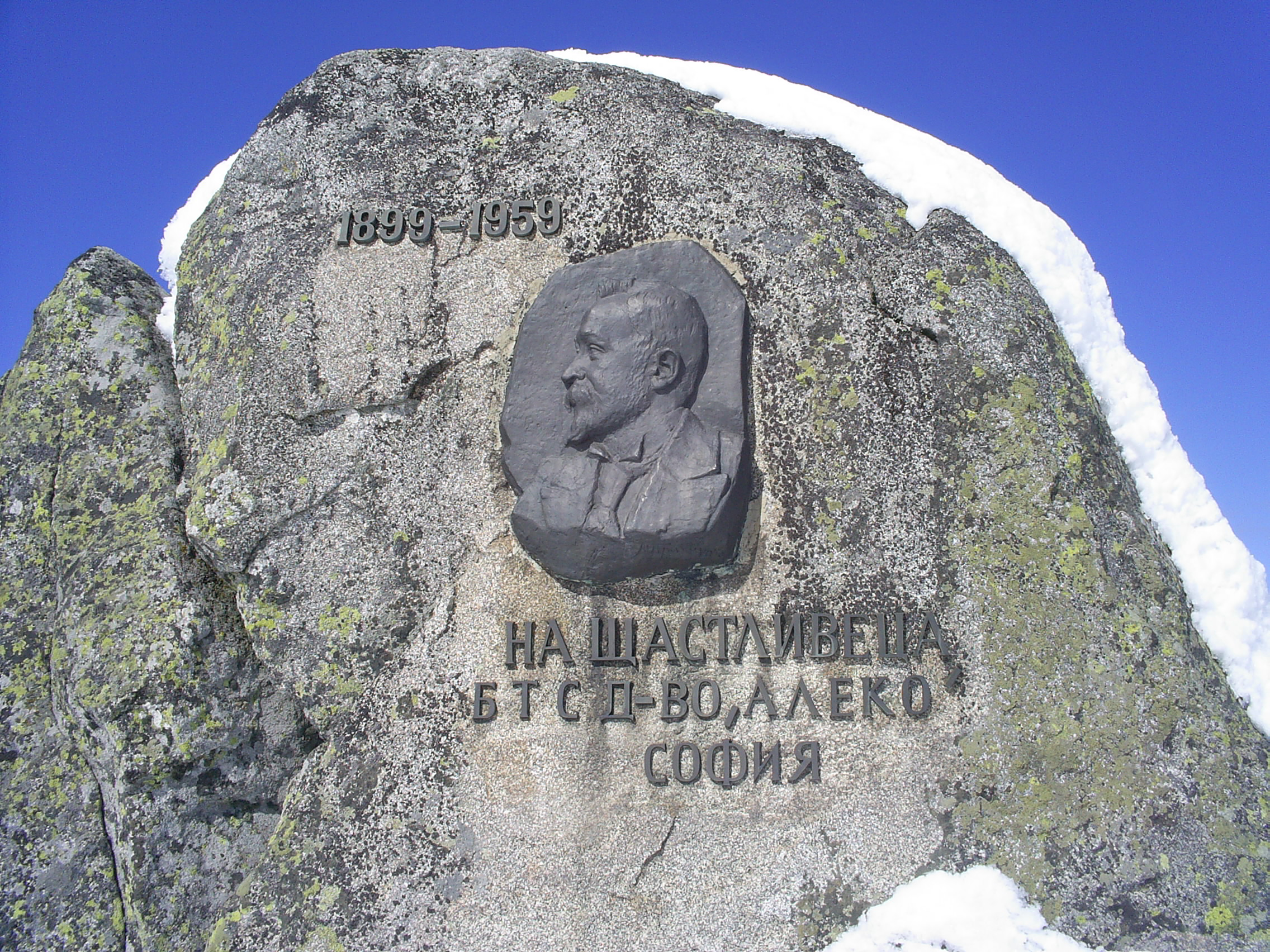 Monument of bulgarian writer Aleko Konstantinov on Cherni vruh, Vitosha